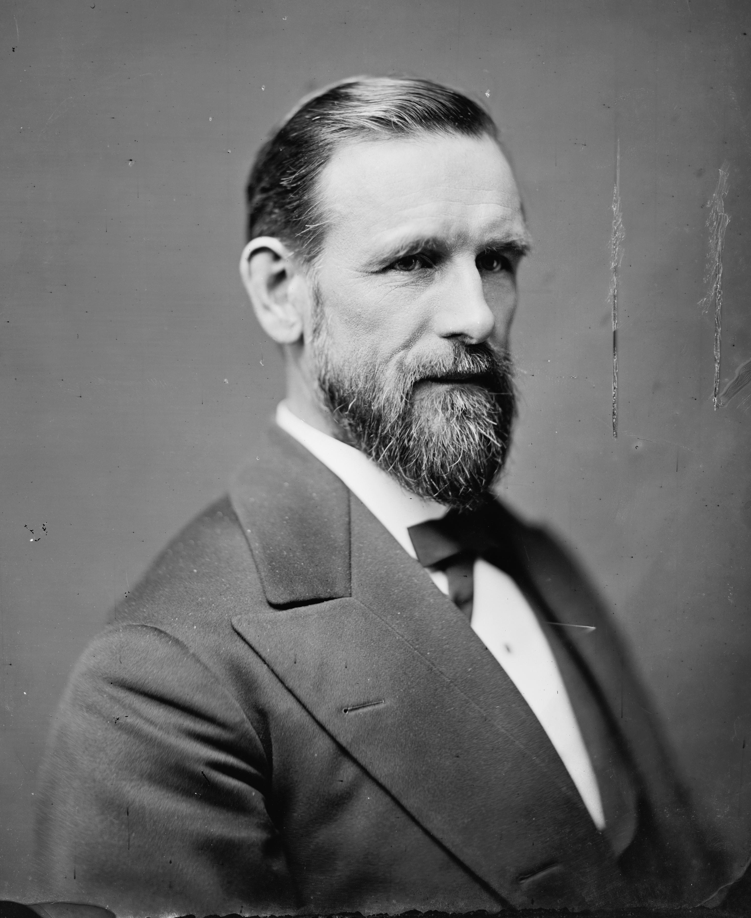 Samuel J. R. McMillan. Library of Congress description: "McMillan, Hon. Samuel James Renwick of Minn. 2nd Lt. in Stillwater Frontier Guards during Indian War of 1862".